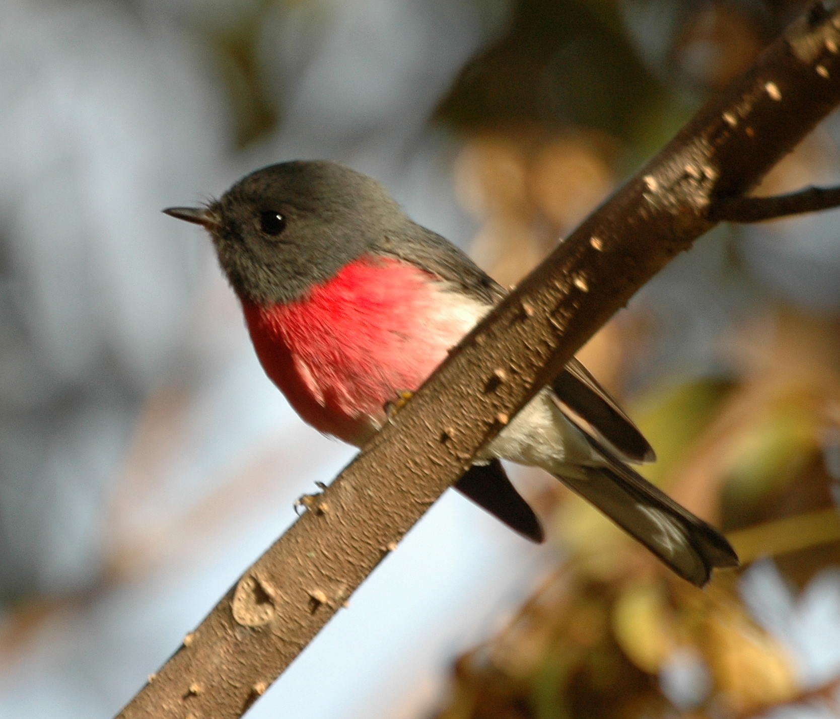 Rose Robin (Petroica rosea) Flinders Peak, SE Queensland, Australia